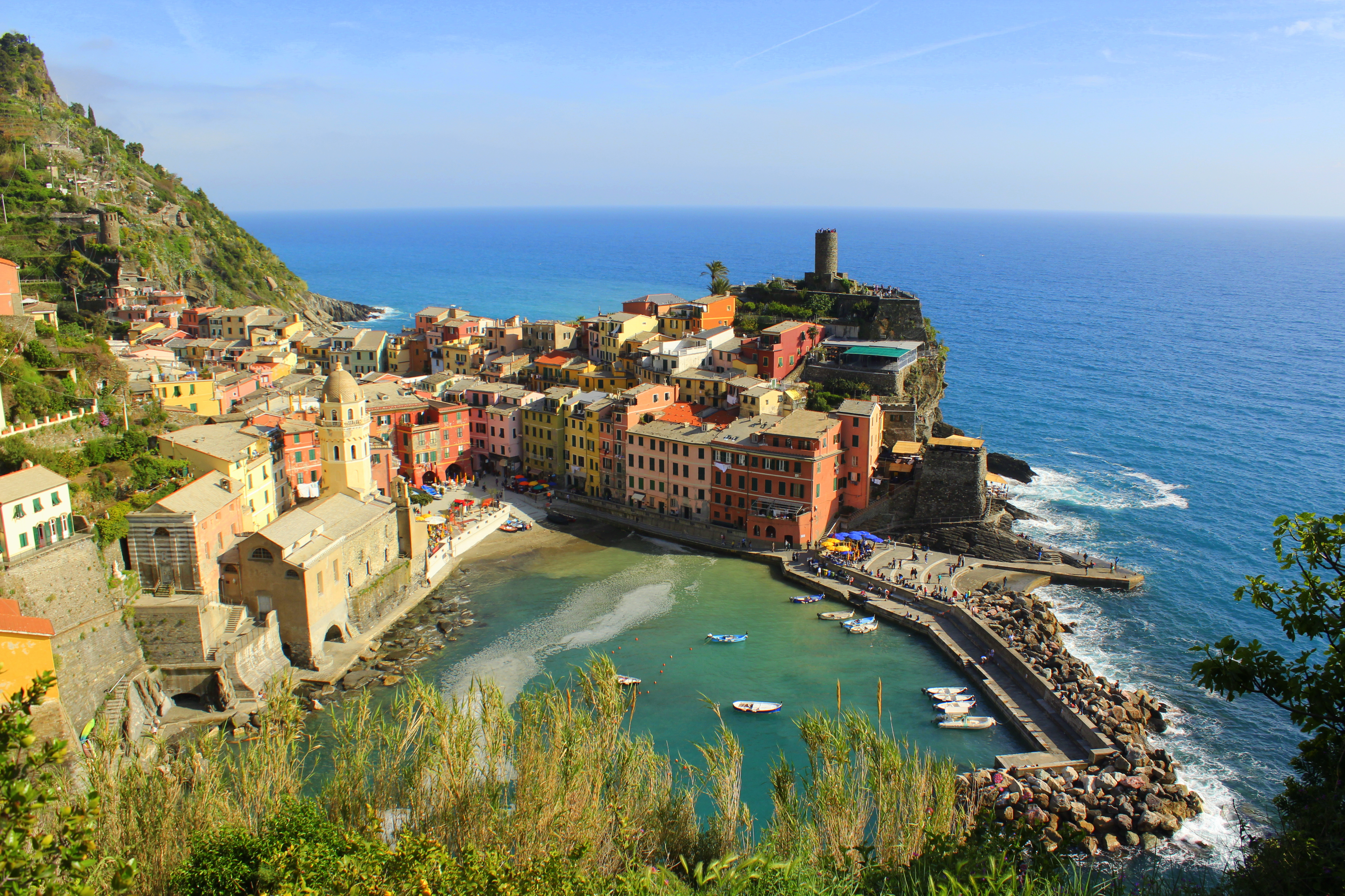 Cinque Terre Vernazza hiking path...